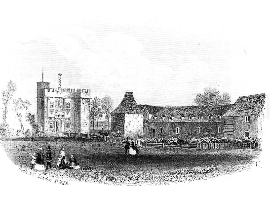 Rye House